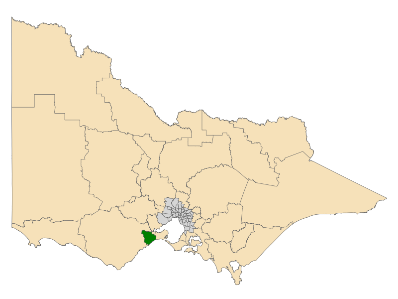 Location of the Electoral District of South Barwon (dark green) in the state of Victoria, Australia. These boundaries were used for the Victorian state election on 29 November 2014.